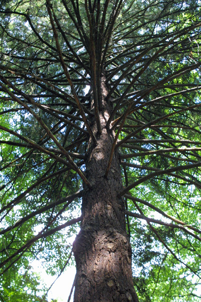 Pseudotsuga menziesii in Újezdec, Czech Republic